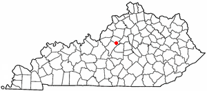 Adapted from Wikipedia's KY